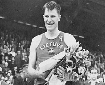 Photo of Frank Lubin (Pranas Lubinas) in 1939.